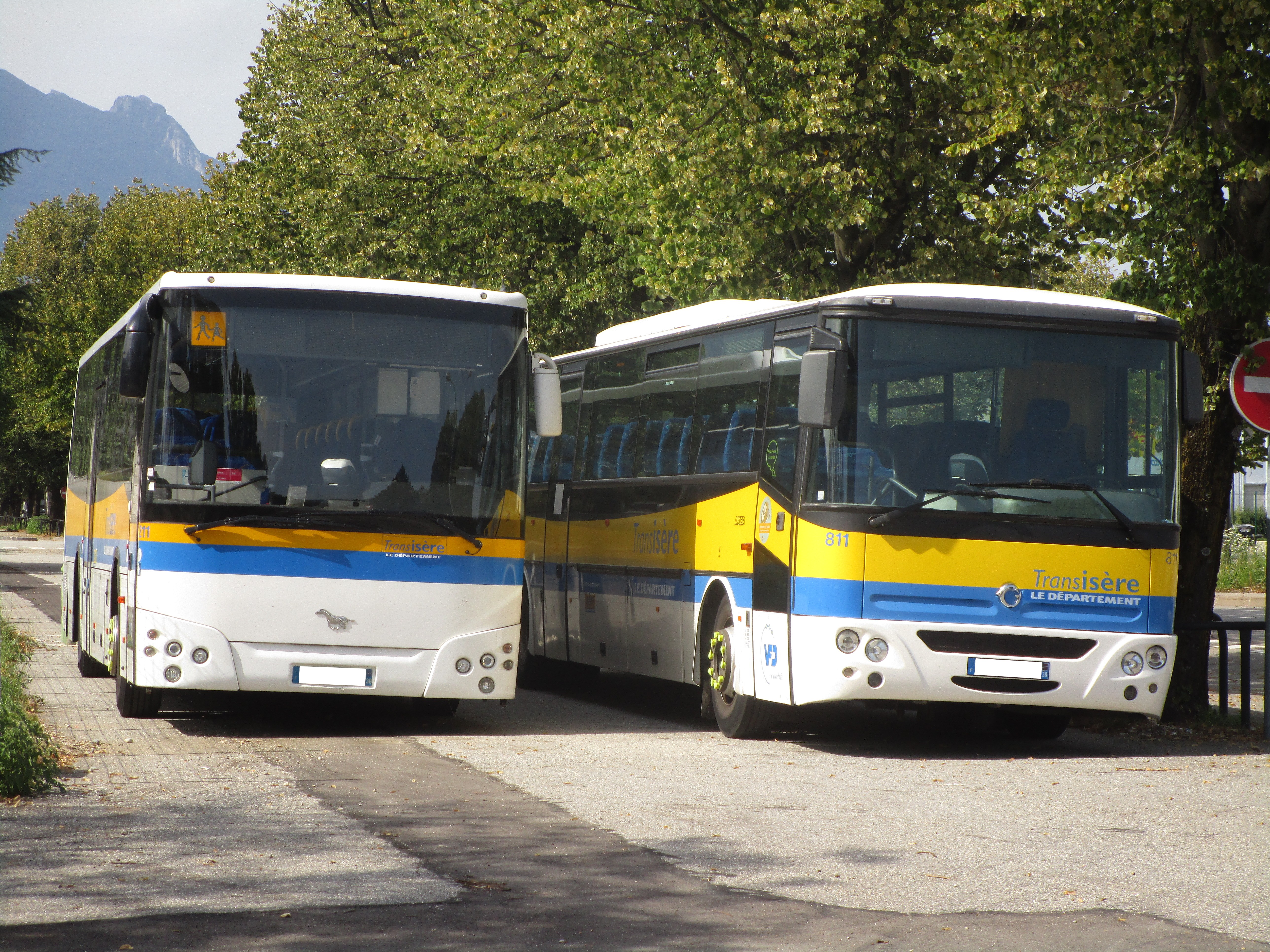 A Temsa Tourmalin (n°211 of the VFD) and an Irisbus Axer (n°811 of the VFD) parked in the Avenue de la Houille Blanche (Chambéry, France) on August 27, 2017.